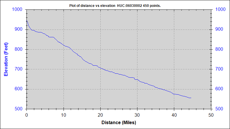 This map was created using USGS StreamStats software. Information generated by this software is considered public domain according to the USGS information policies cited here